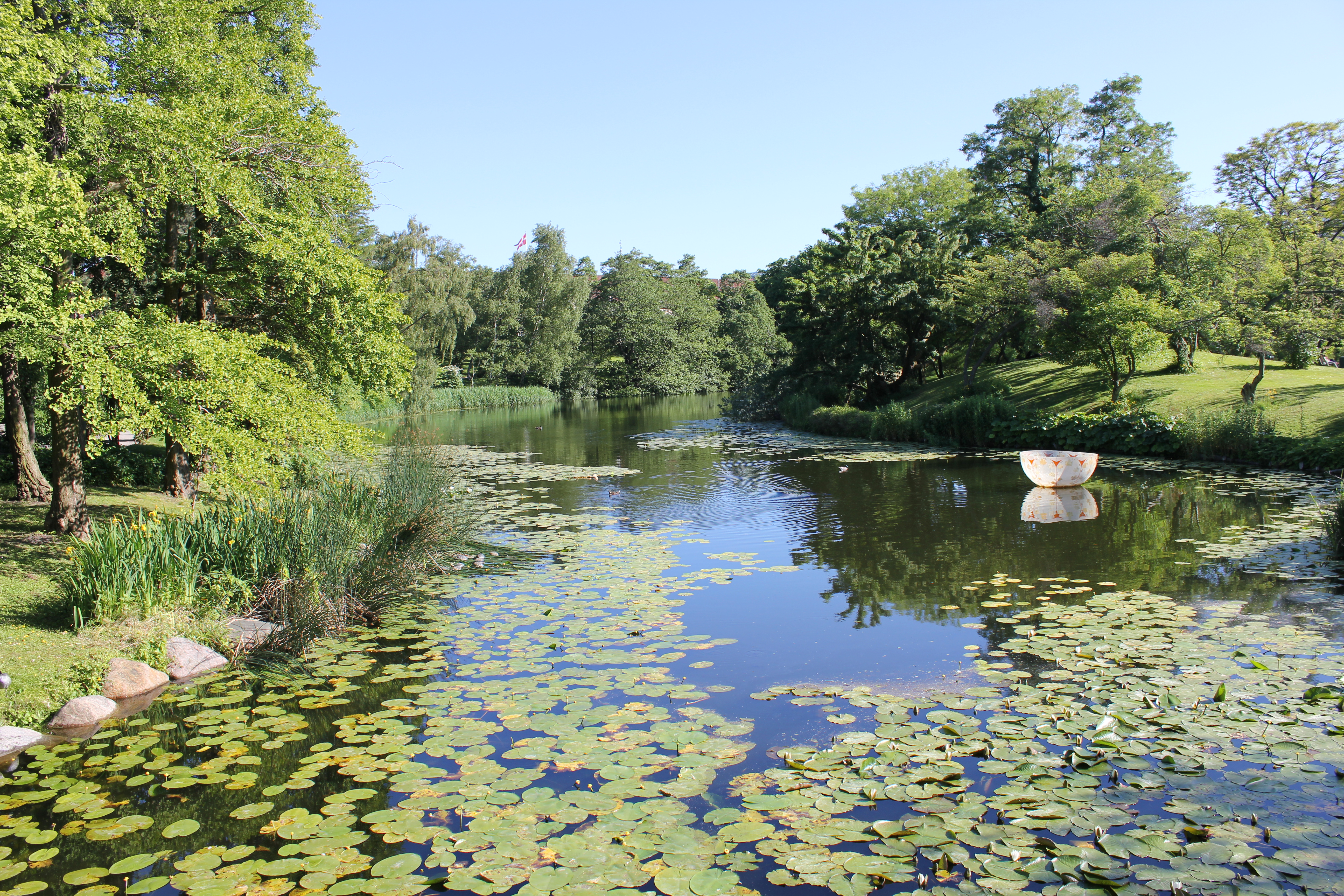 University of Copenhagen Botanical Garden